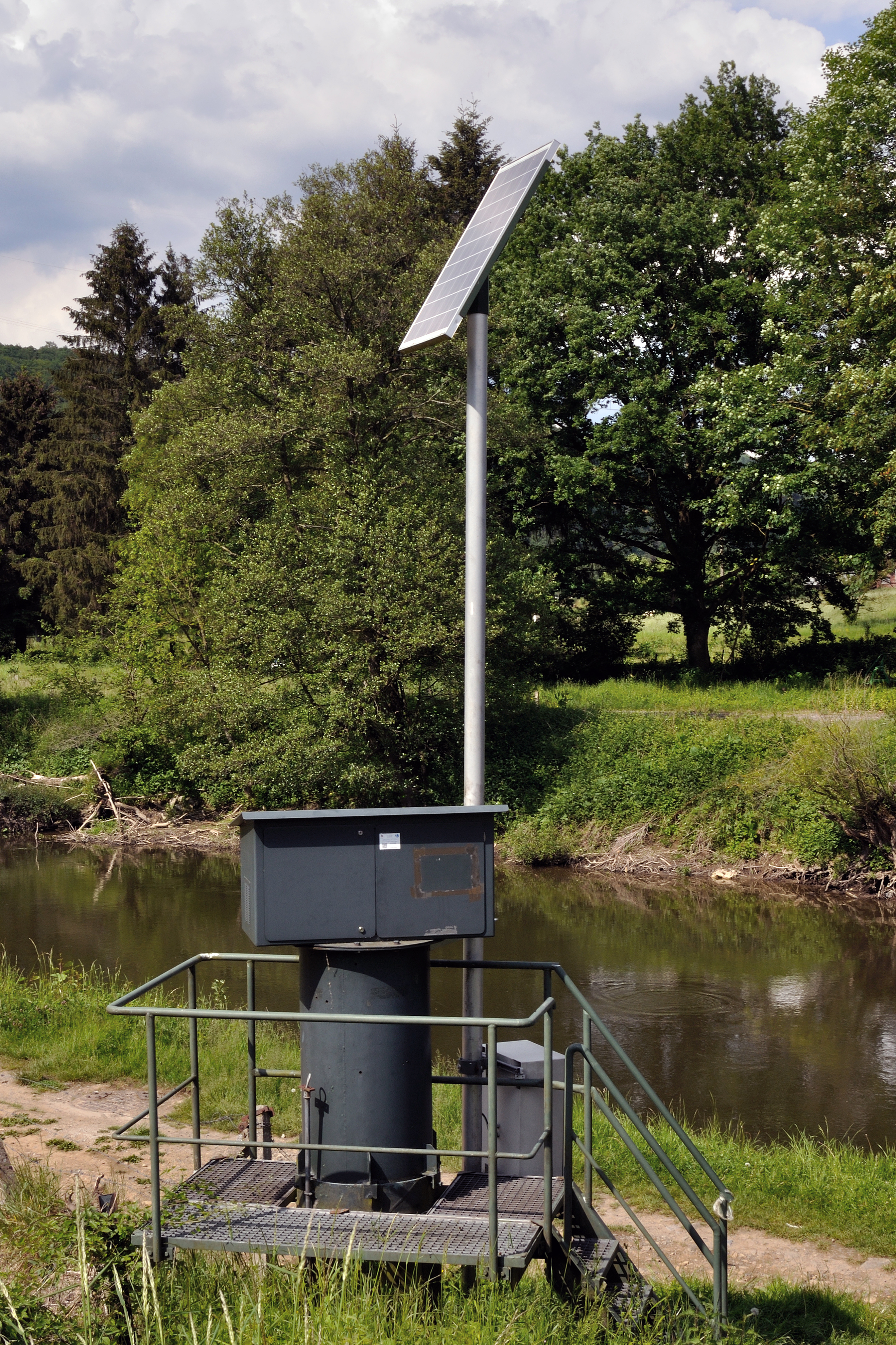 The hydrographic station situated in Tabreux, Hamoir, Wallonia, Belgium.